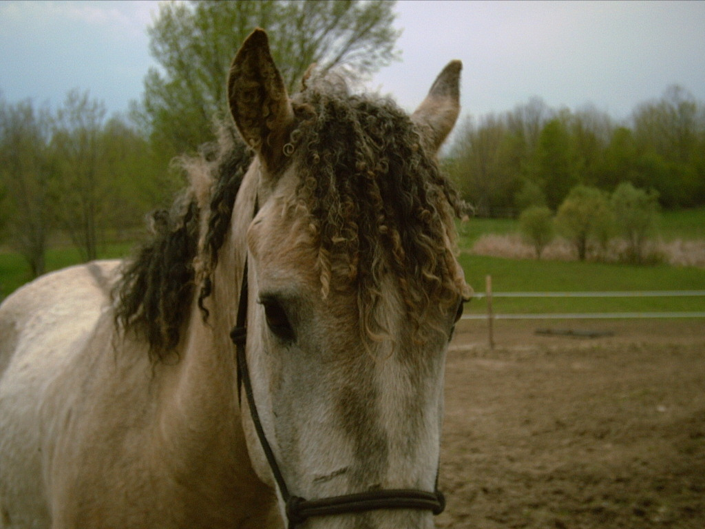 Typical Curly Horse, with curly mane, curved eyelashes, and curls inside the ears.